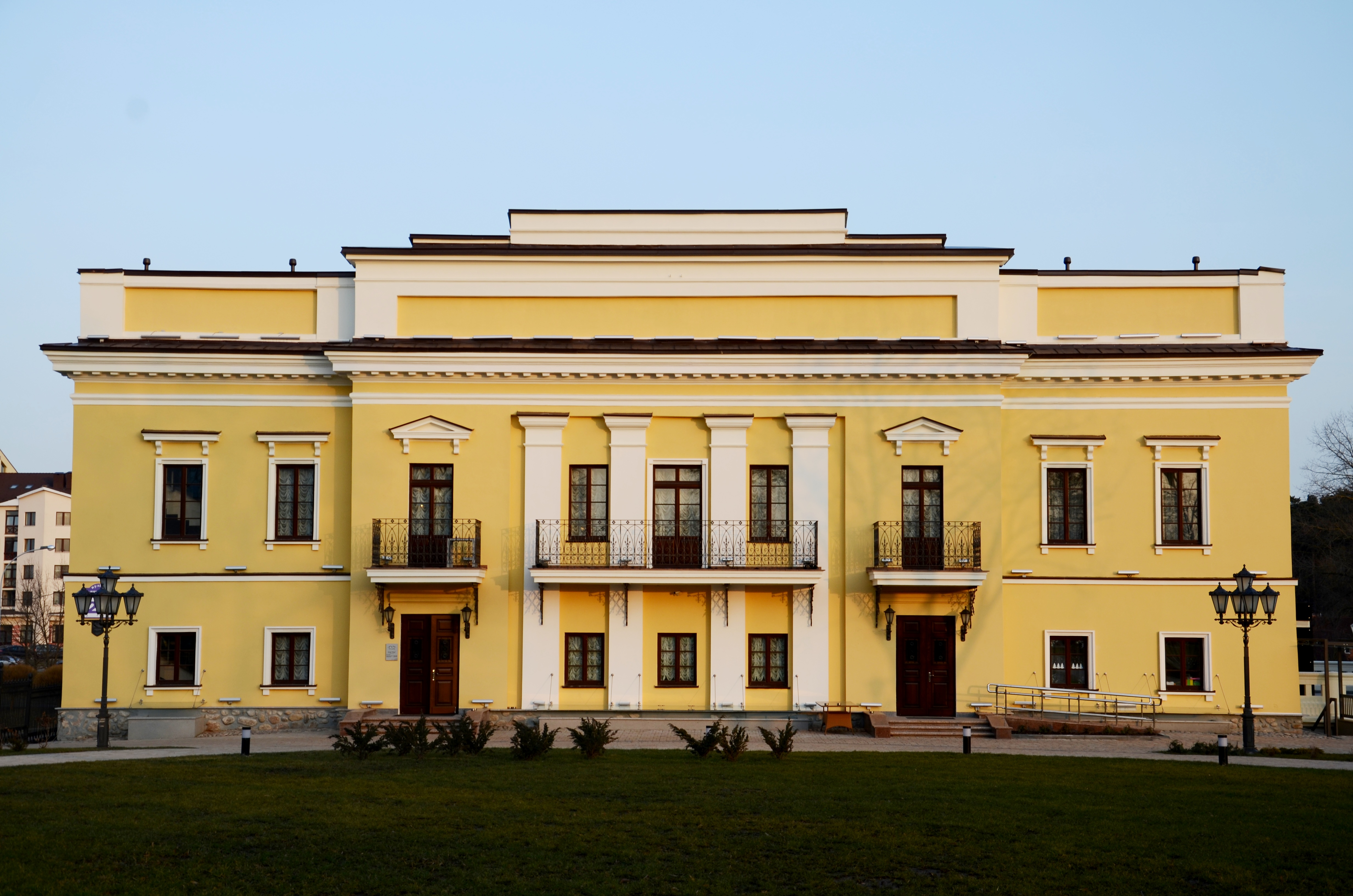 Manor of the Wankowic Family in Minsk, Filimonov-street, 24